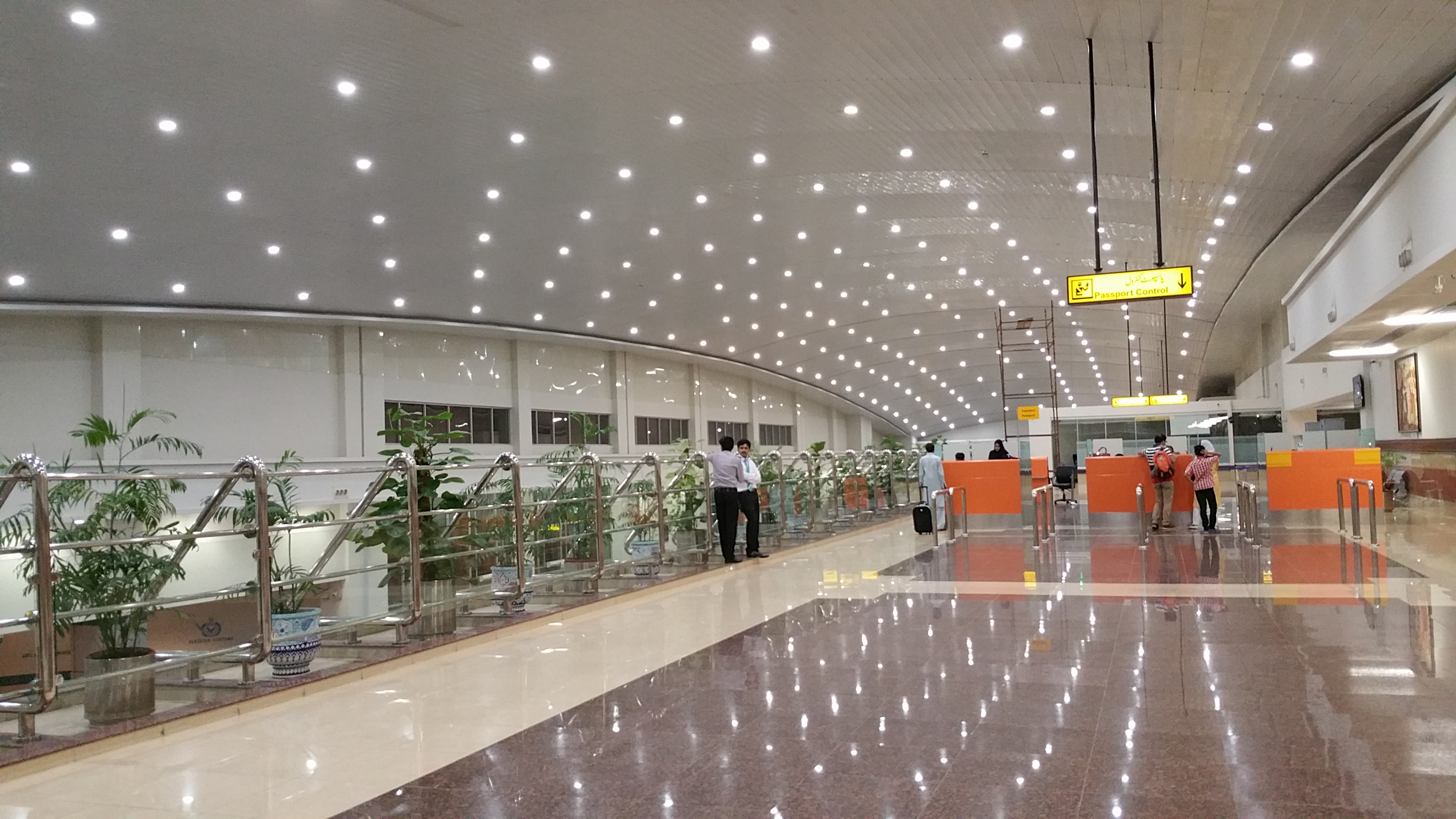 Multan International Airport: Inside View